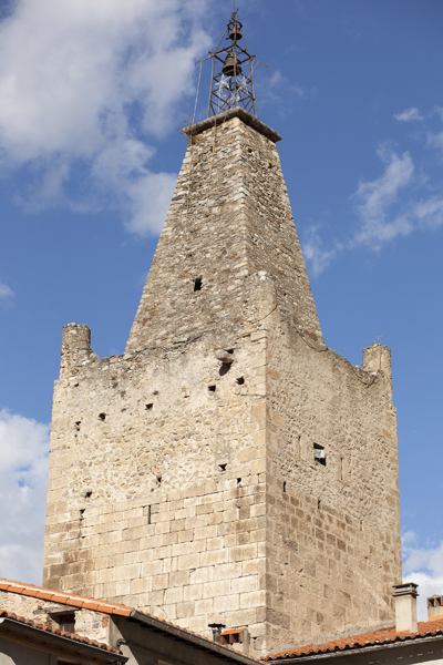 Villefranche-de-Conflent (Vilafranca de Conflent); ; Languedoc-Roussillon, Pyrénées-Orientales; France; The belfry tower. 12th century. ; photo: Paul M.R. Maeyaert; ; Ref: PM_107945_F_Villefranche_de_Conflent.jpg